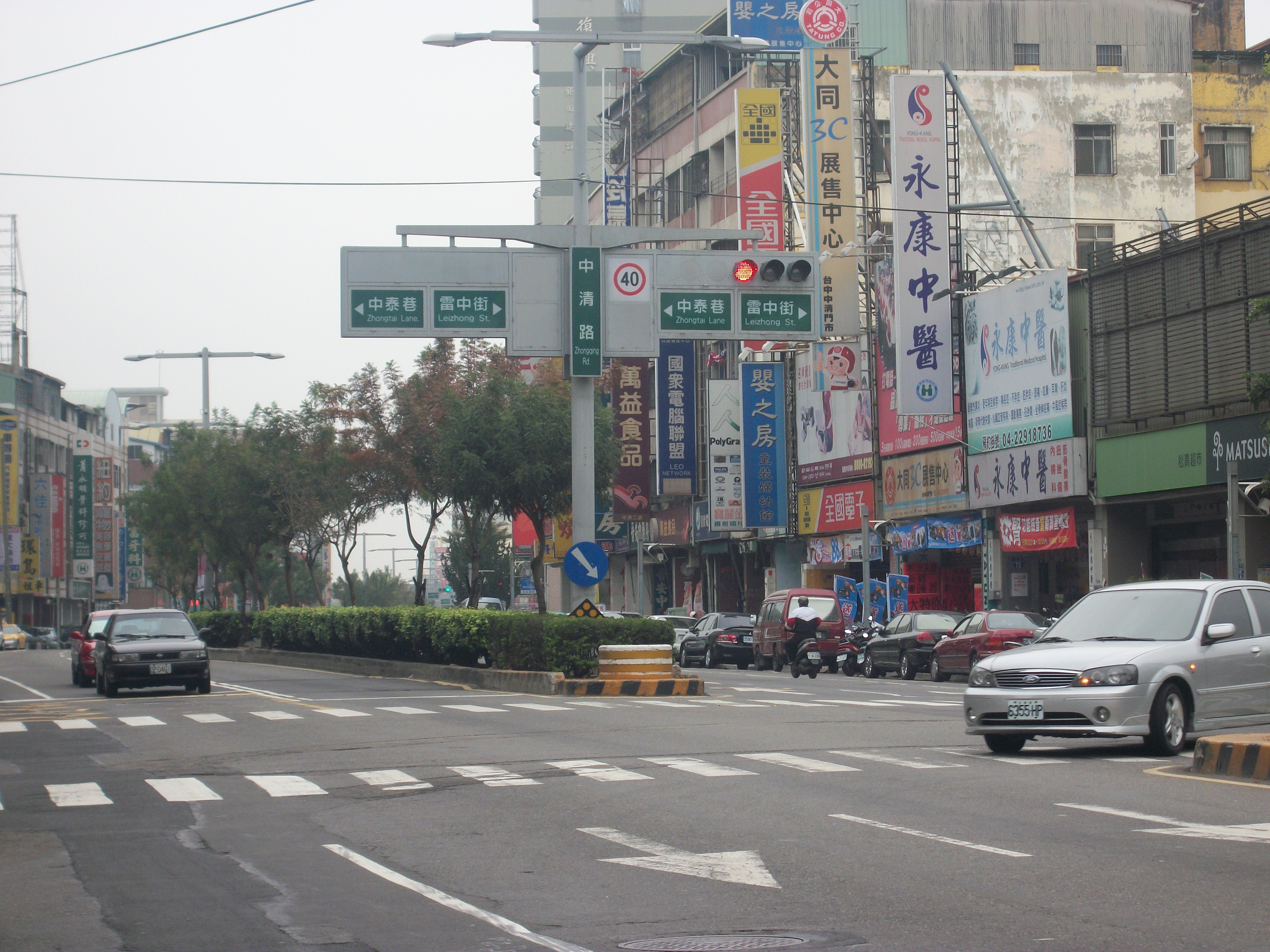 The intersection of Zhongqing Rd. and Leizhong St.,Taichung City.Zhongqing Rd. belongs to the section of Highway No.1B.